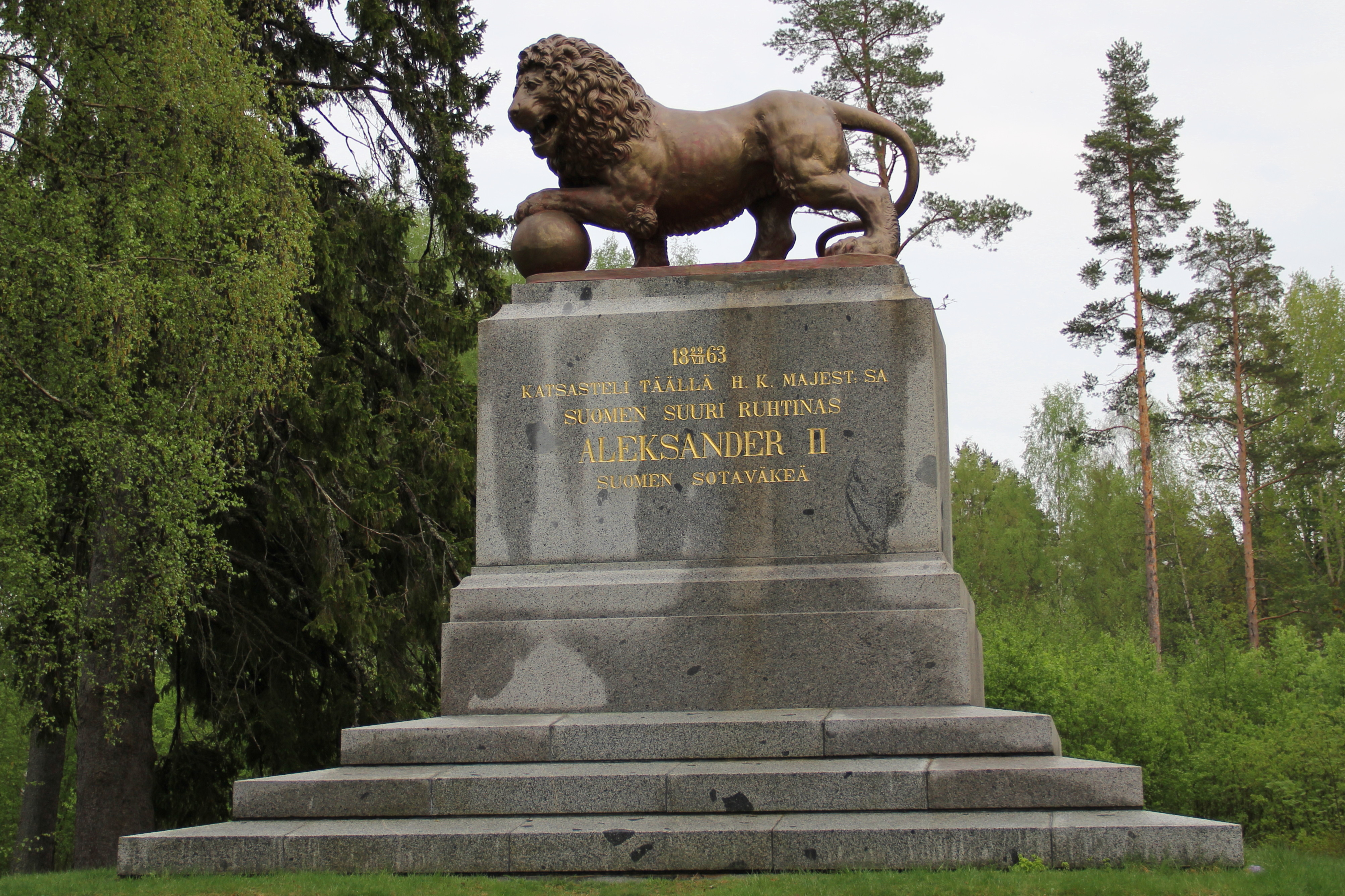 Parolan Leijona (The Parola Lion), Hattula, Finland. - A statue by Andreas Fornander, unveiled in 1868.